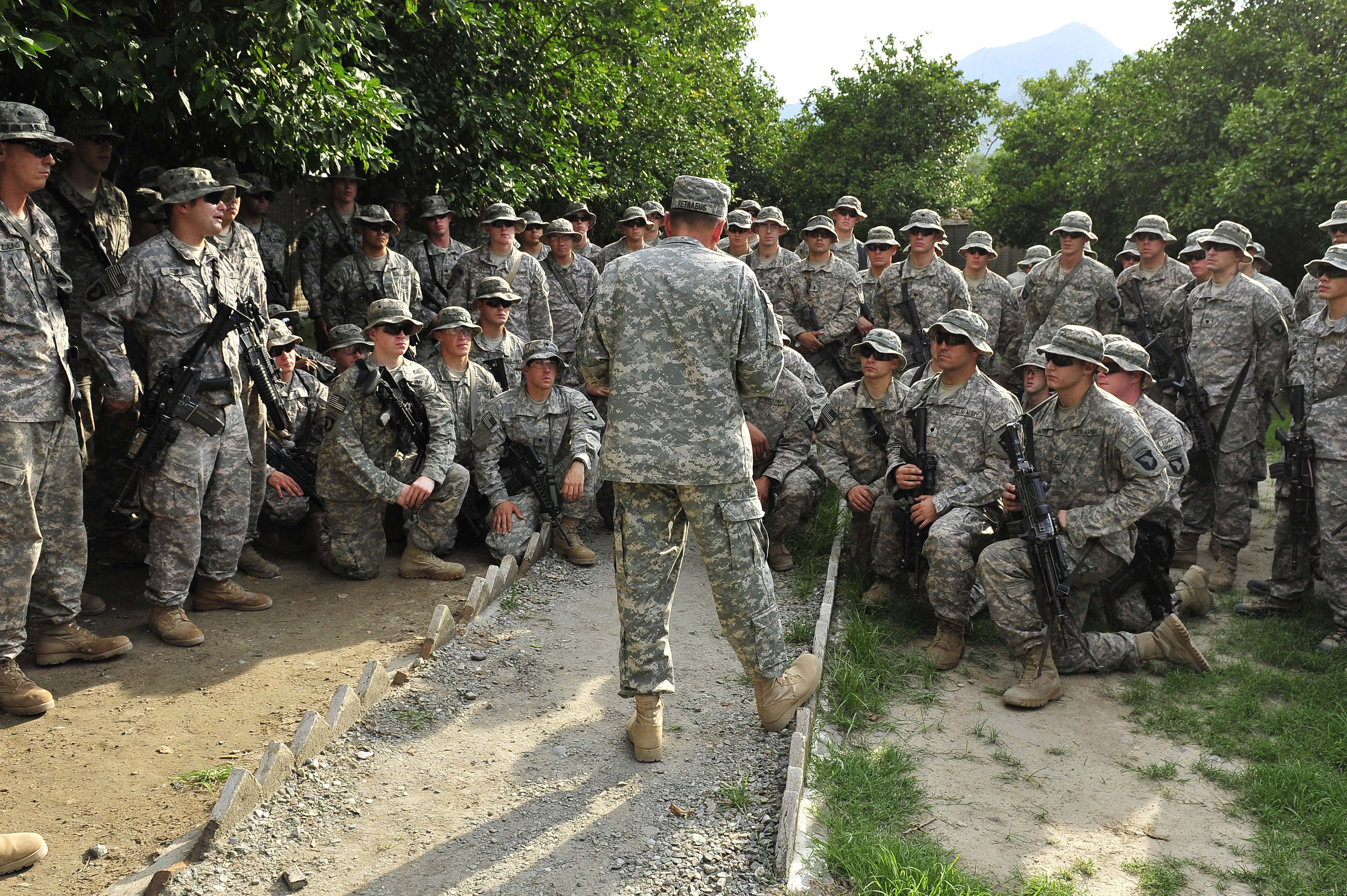 Commander of the International Security Assistance Force Gen. David H. Petraeus (center), U.S. Army, talks with U.S. soldiers of the 2nd Battalion, 327th Infantry Regiment, 1st Brigade Combat Team, 101st Airborne Division at Combat Outpost Monti in eastern Afghanistan.